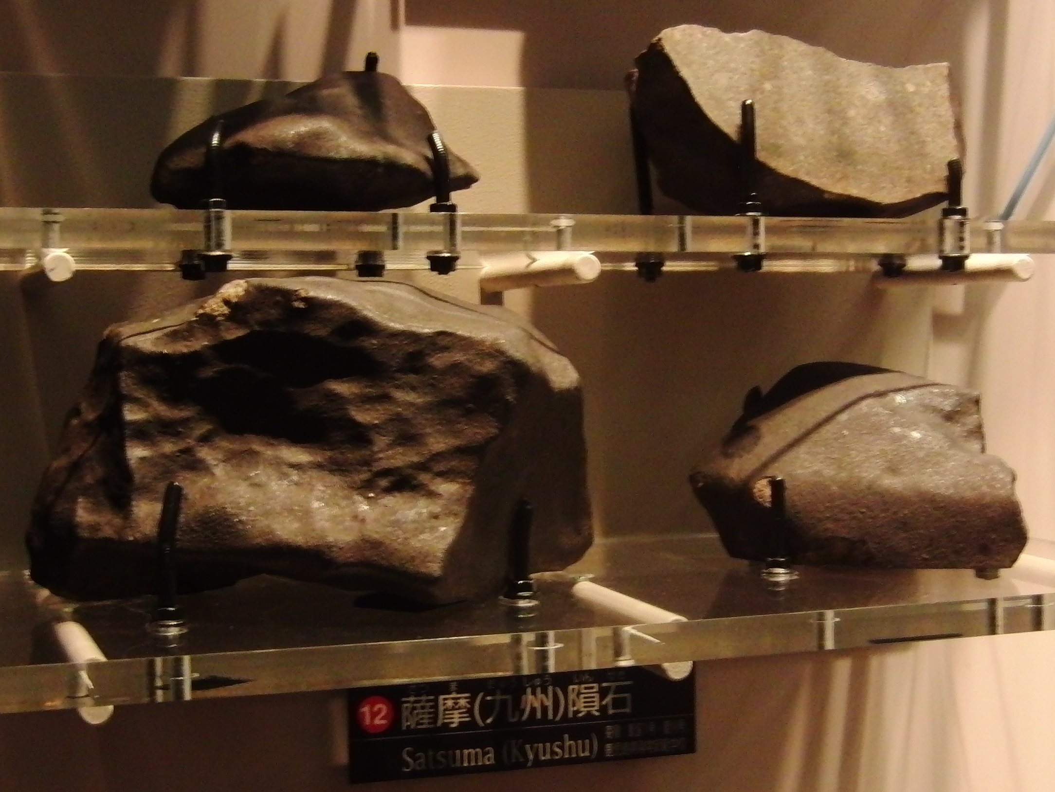 Satsuma Meteorite (Kyushu meteorite), L6. Exhibit in the National Museum of Nature and Science, Tokyo, Japan.